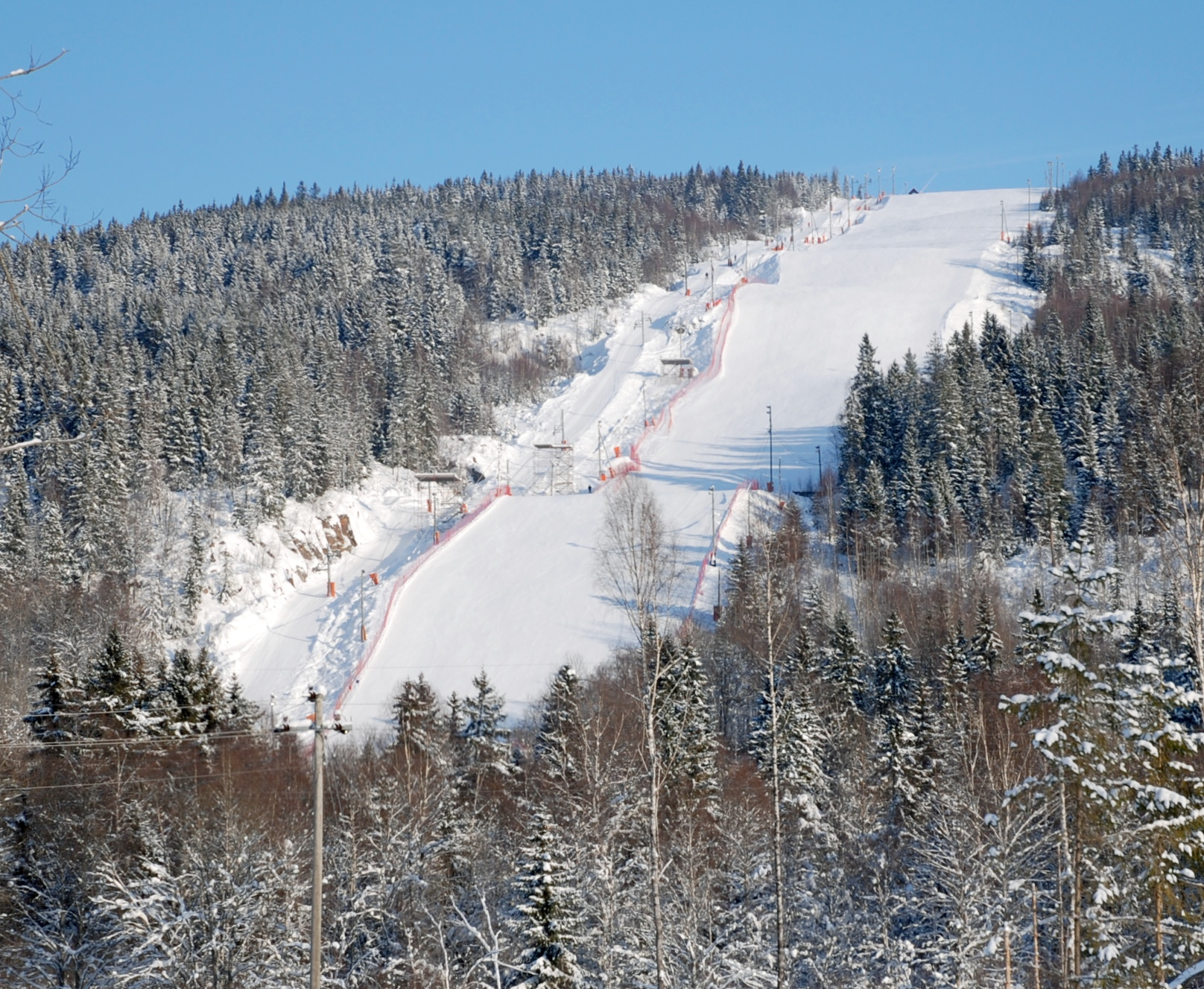 Wyllerløypa in Oslo is a part of Tryvann winterpark and is, with its 1300 meters, the longest part of the winterpark.